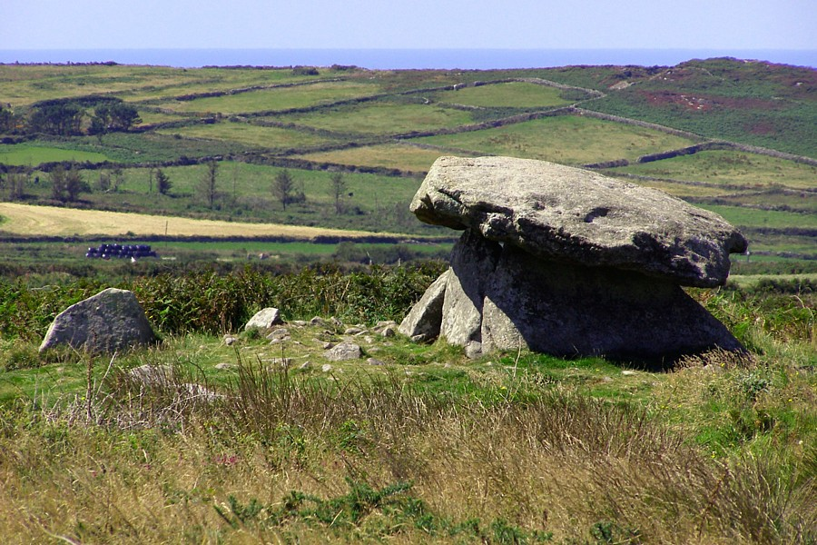 Chûn Quoit - Penwith - Cornwall